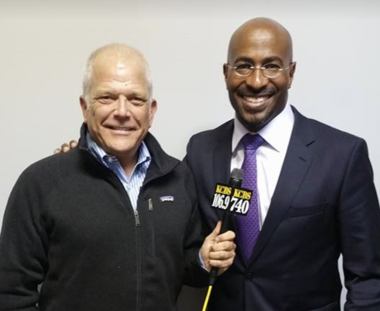 Jeffrey Schaub interviewing CNN's Van Jones in December of 2016.